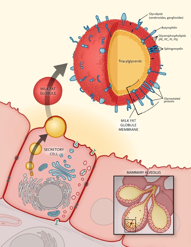 MFGM structure image created using Expert Slide Deck Avant